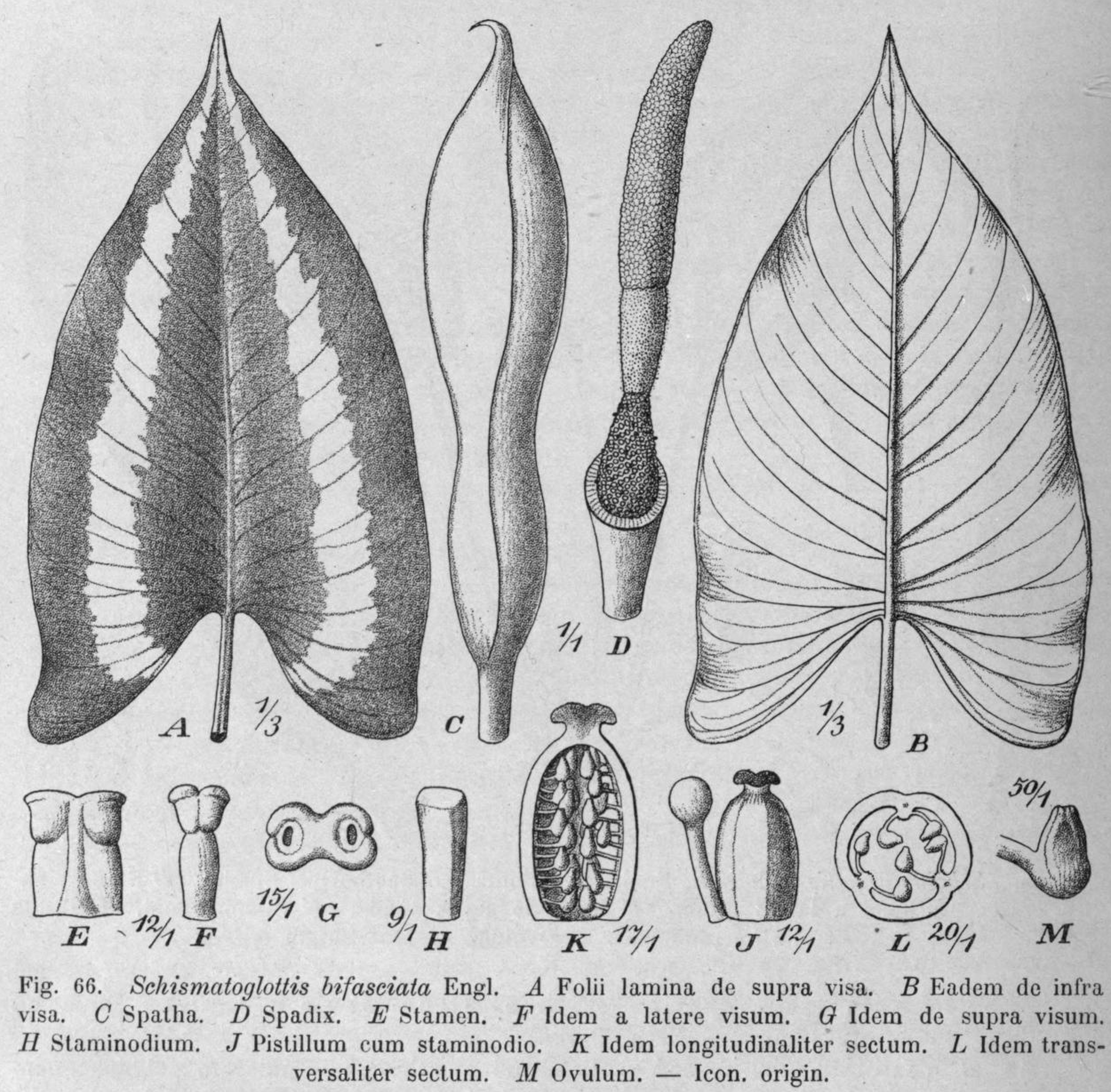 Schismatoglottis bifaciata from Das Pflanzenreich